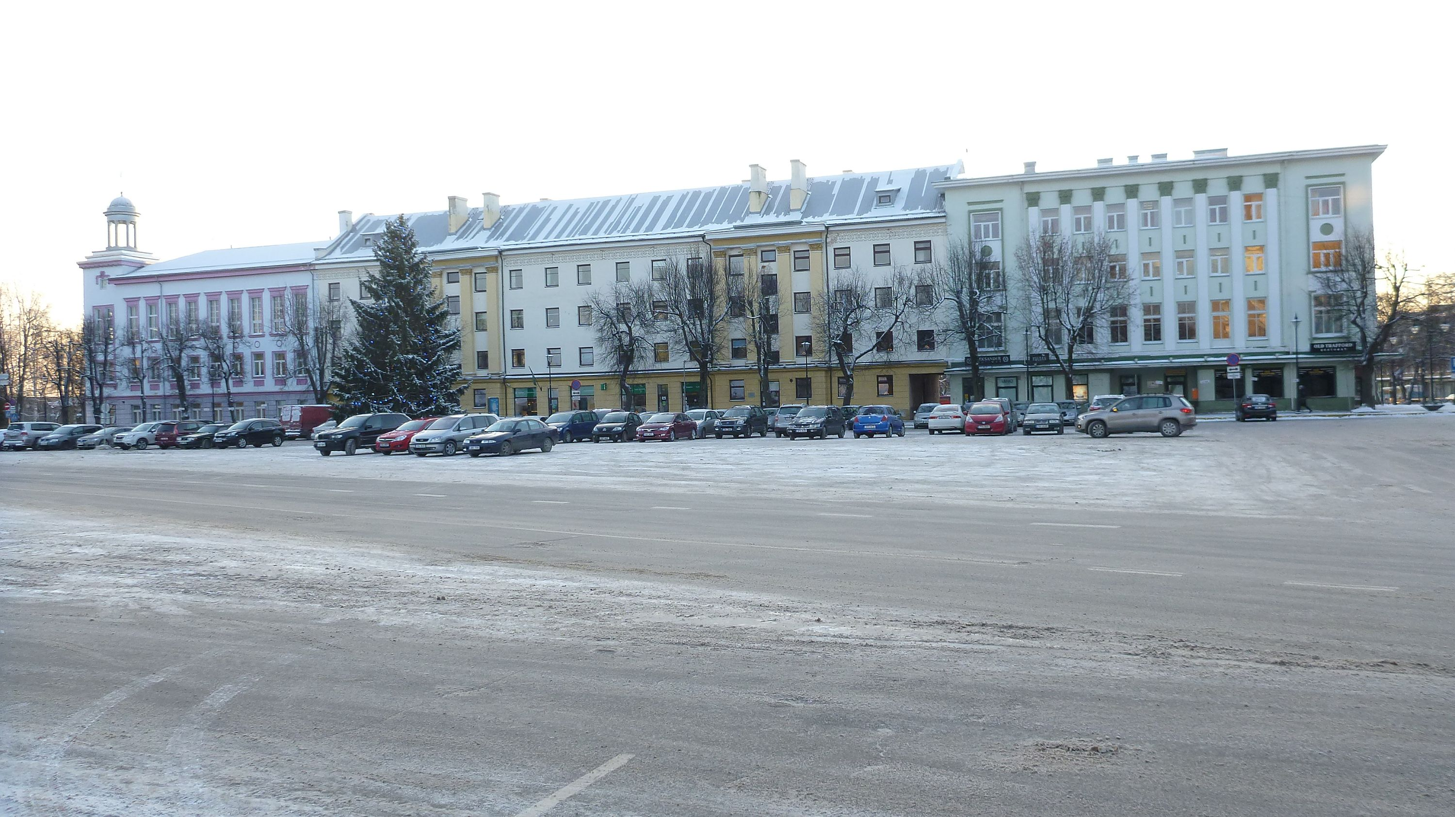 Peetri plats in Narva